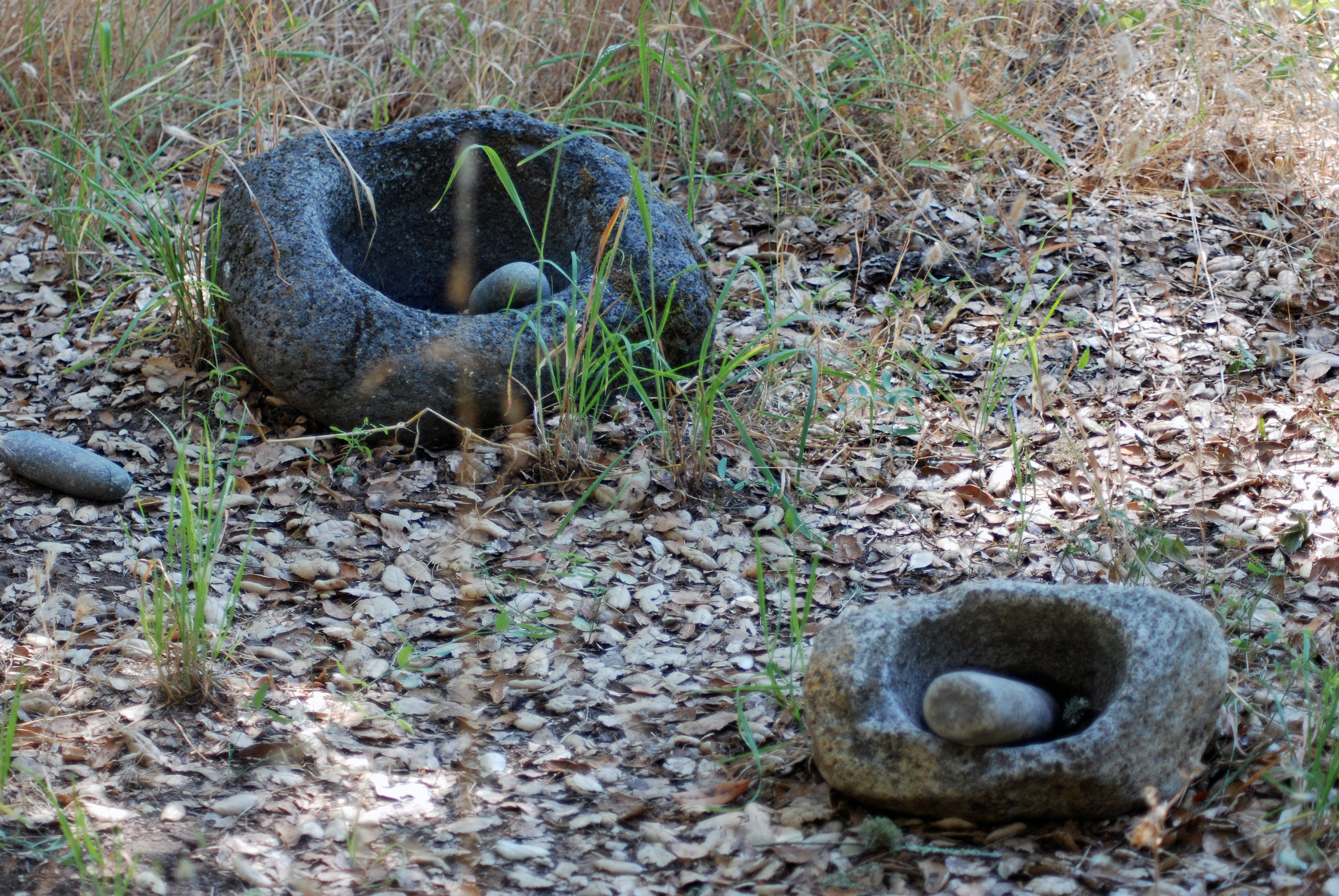 Ohlone people mortars and pestles near Jasper Ridge Biological Preserve Field Station, Stanford University.